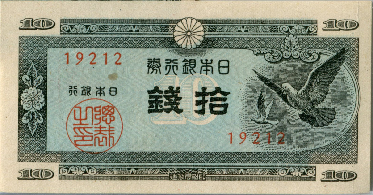 Series A 10 Sen Bank of Japan note. Pigeons. First issued in 1947. Demonetized in 1953. 100mm x 52mm